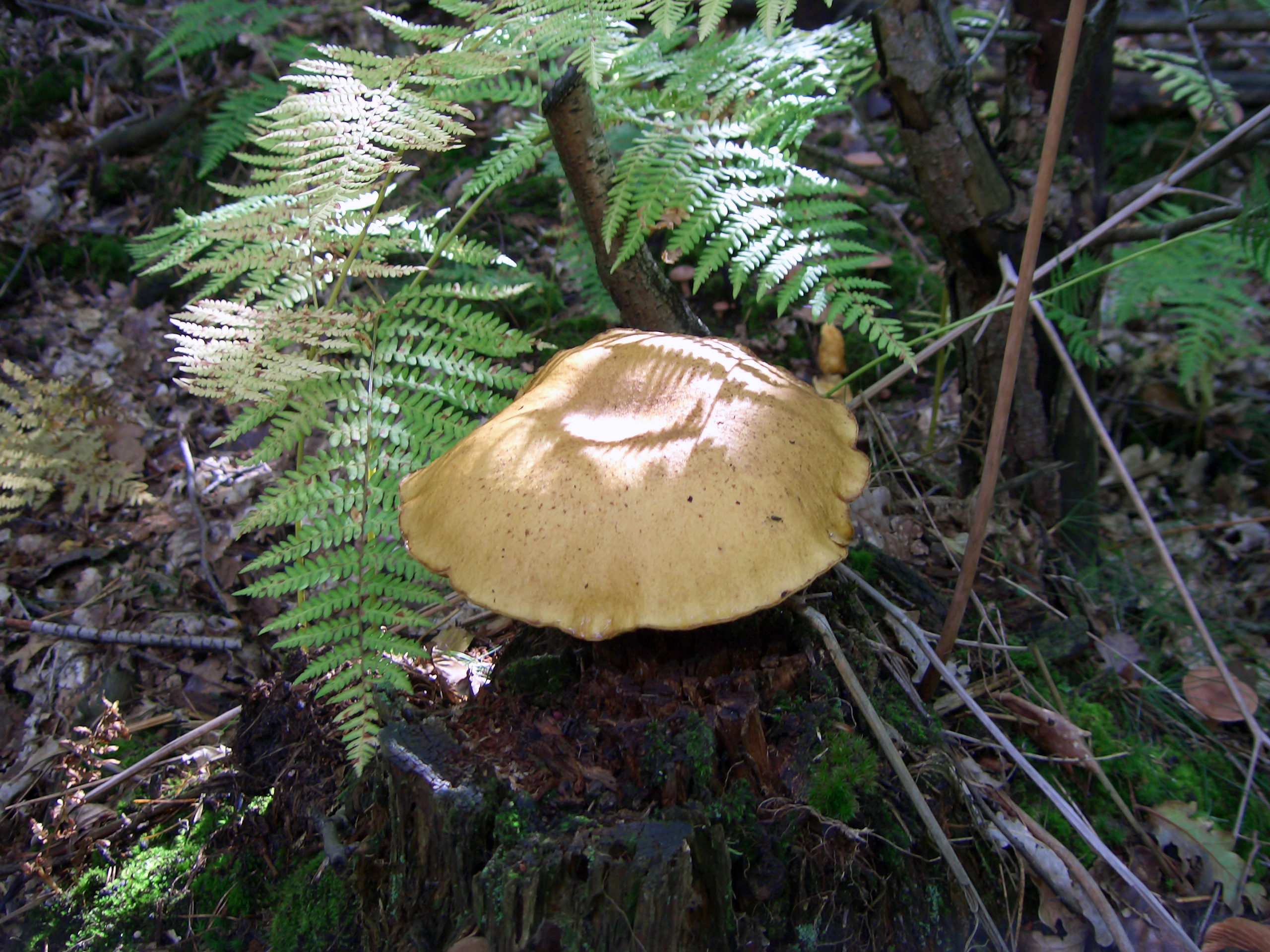 Large specimen of Buchwaldoboletus hemichrysus, found in River Elbe valley, Czech Repzblic.